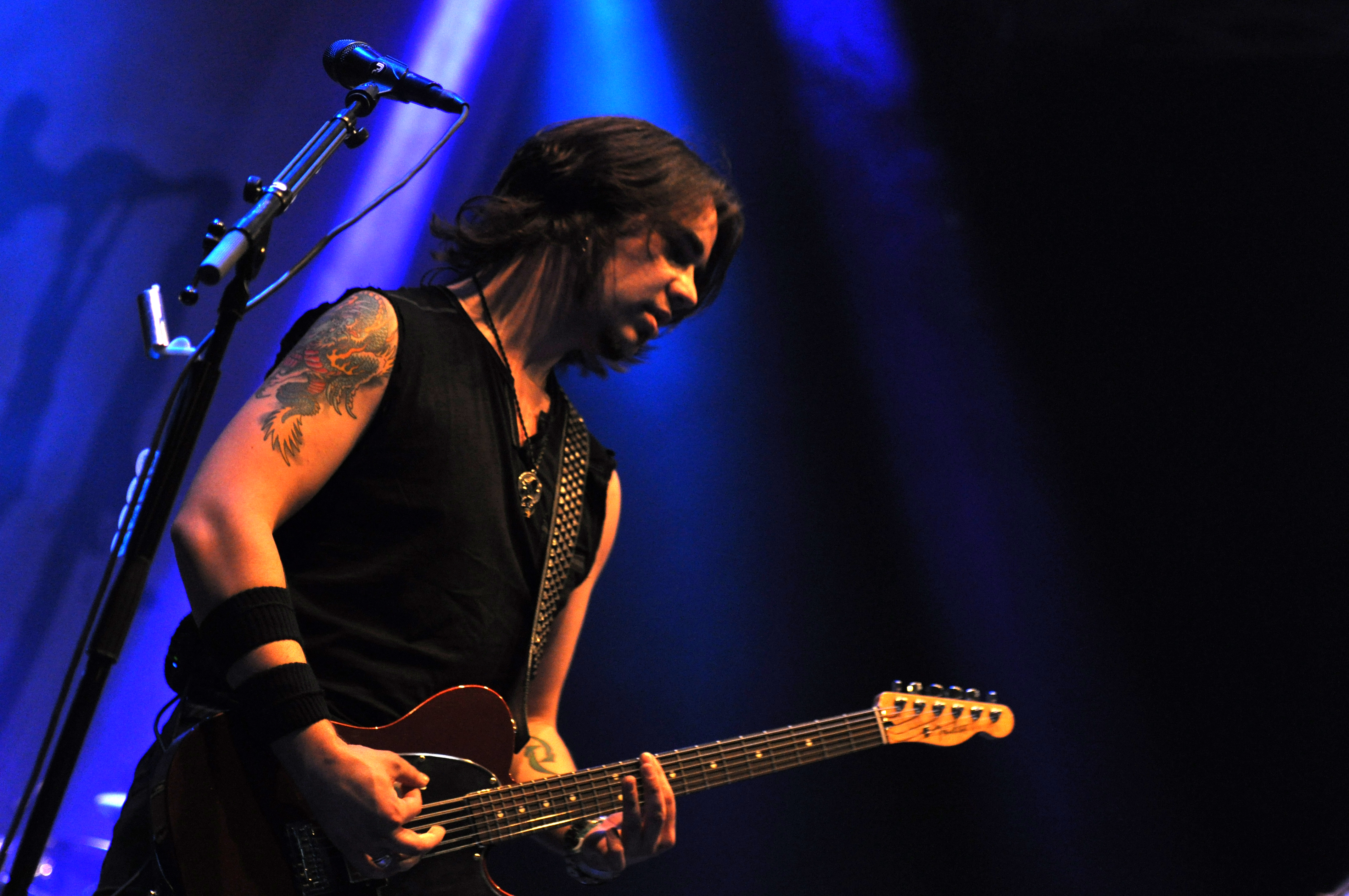 Halestorm at Paaspop 2014